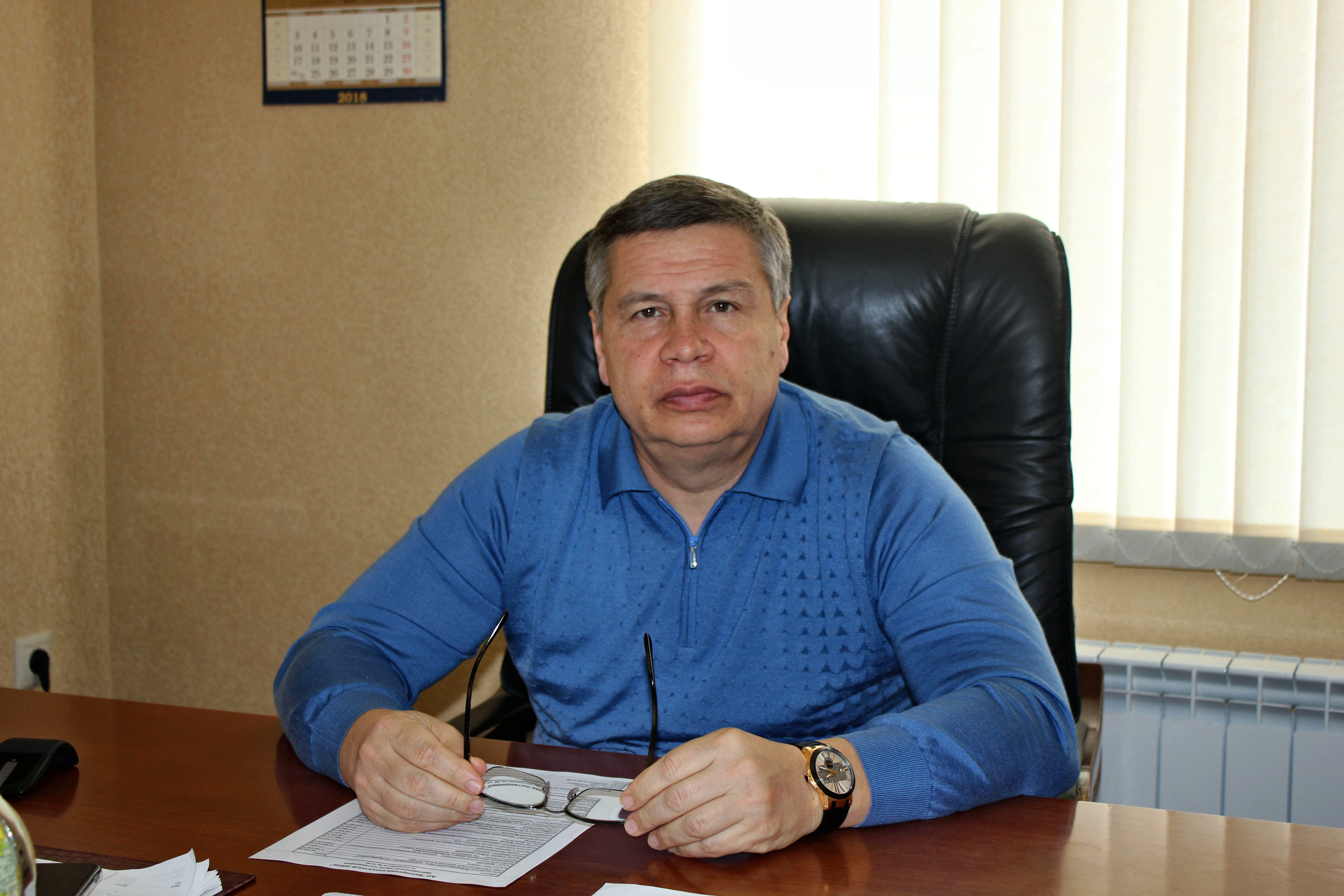 «Кизлярский коньячный завод»